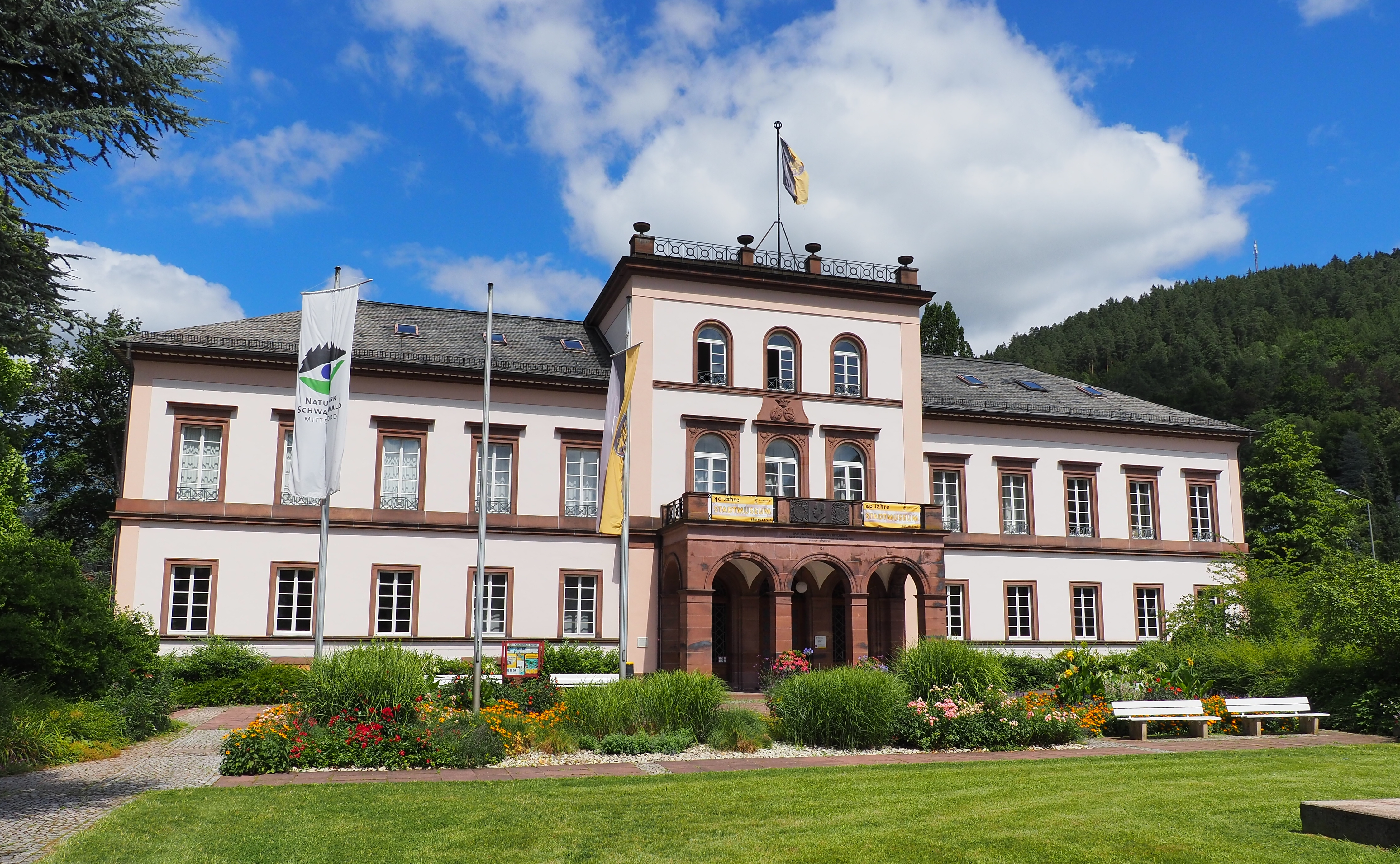 city museum Schramberg